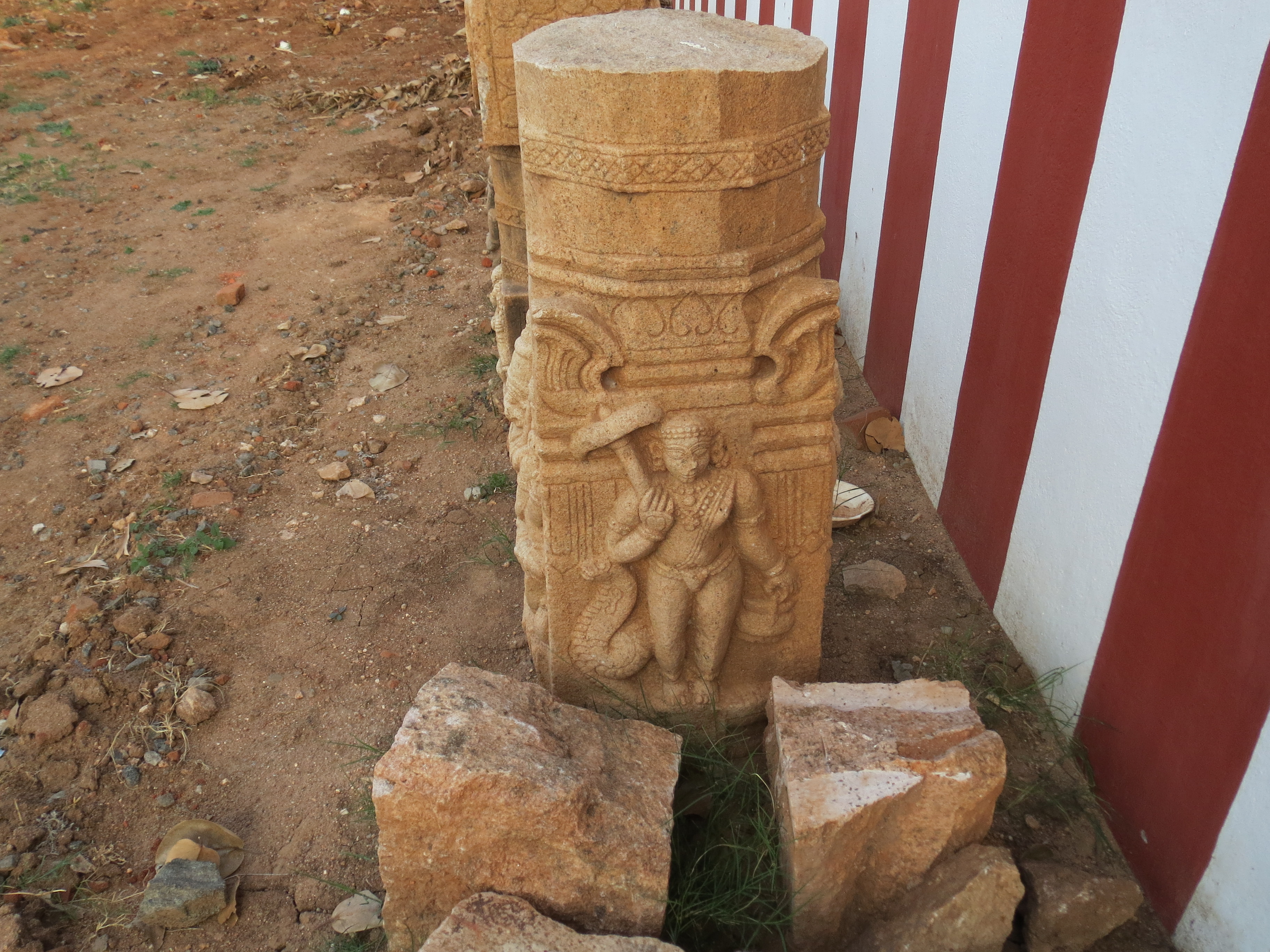 Vamana avathara sculpture on a ruined piller of old venkatesaperumal temple, parameswaranpalayam (coimbatore)